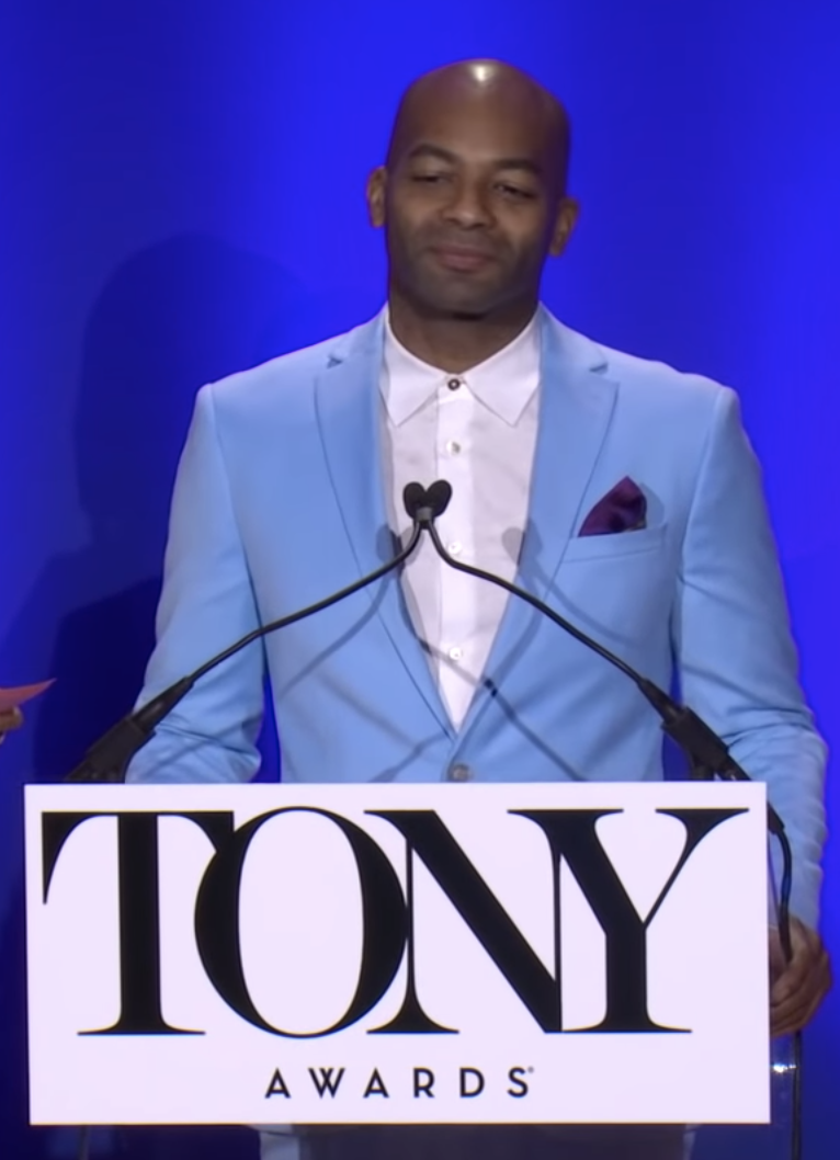 Brandon Victor Dixon presenting the 2019 Tony Awards nominations